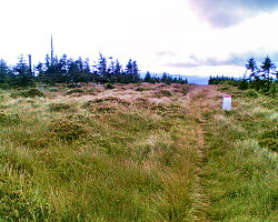 Flat summit of Smrek in the Polish part of the Jizera Mountains Česky: Plochý vrchol Smreku v polské části Jizerských hor